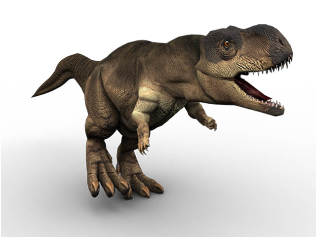 Rajasaurus